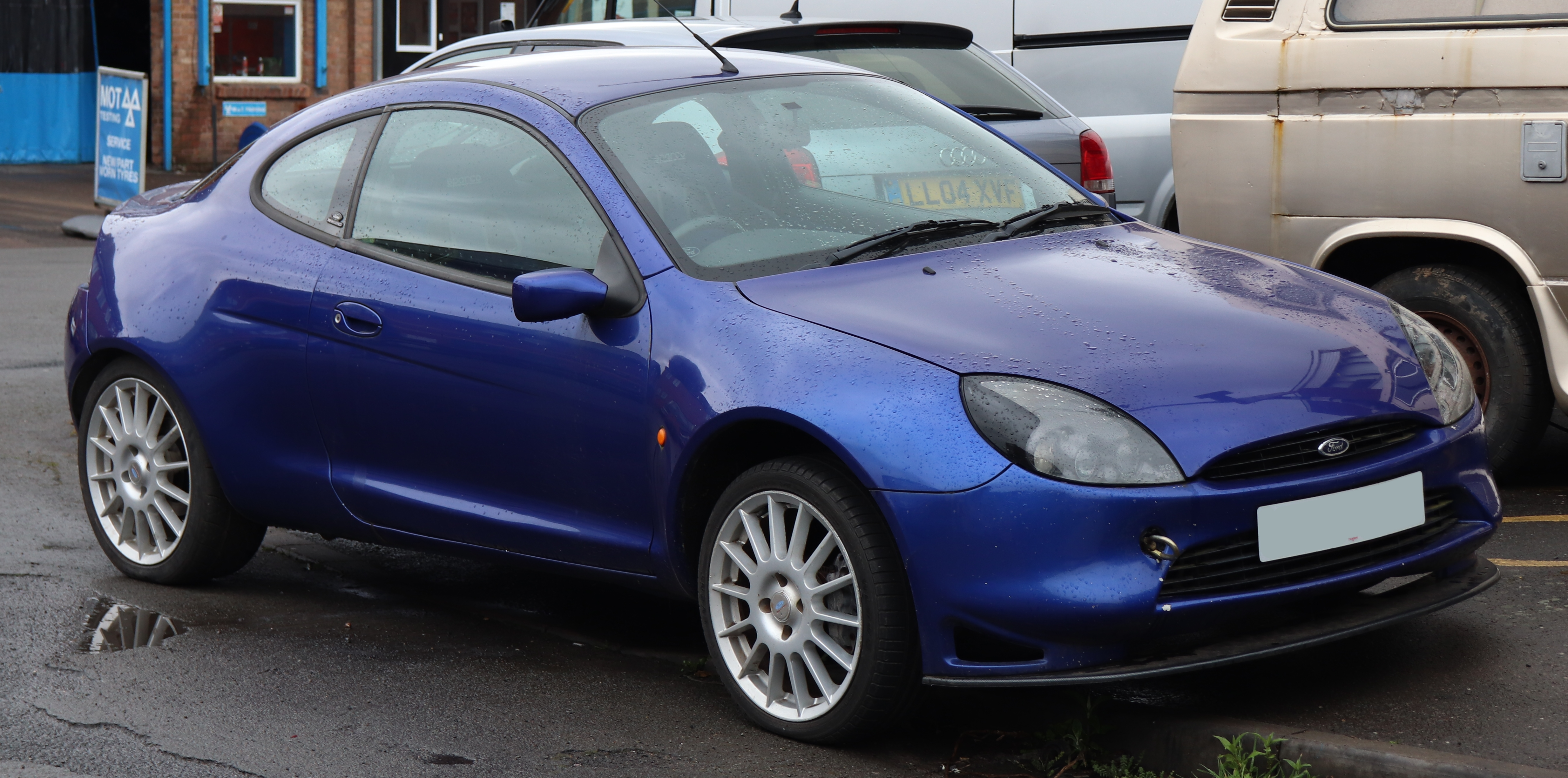 2000 Ford Racing Puma 16V 1.7 Front Taken in Leamington Spa